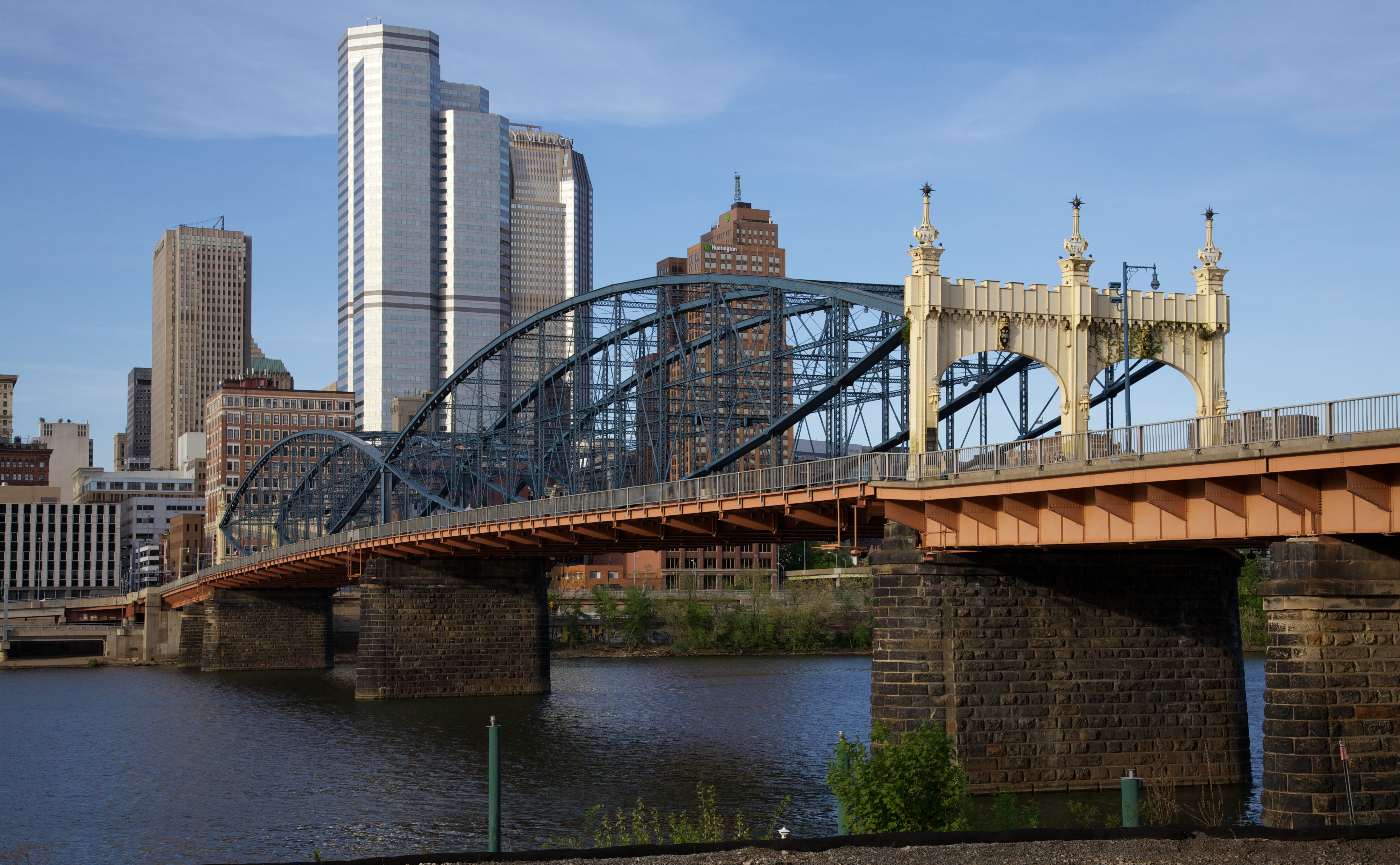 A lenticular truss bridge designed by Gustav Lindenthal and built between 1881–83. This bridge connects Pittsburgh with the old railway station at the base of Mount Washington across the Monongahela River.